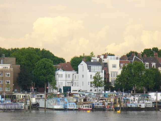 Cheyne Walk Houseboats, des res riverside housing and a sickly yellow sky threatening a thunderstorm which never came on a very sultry day.